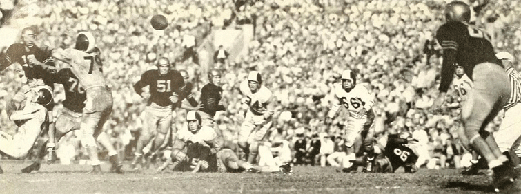 A play from the 1953 game between the United States Naval Academy (Navy) and Cornell.